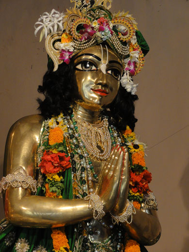 srivasathakura